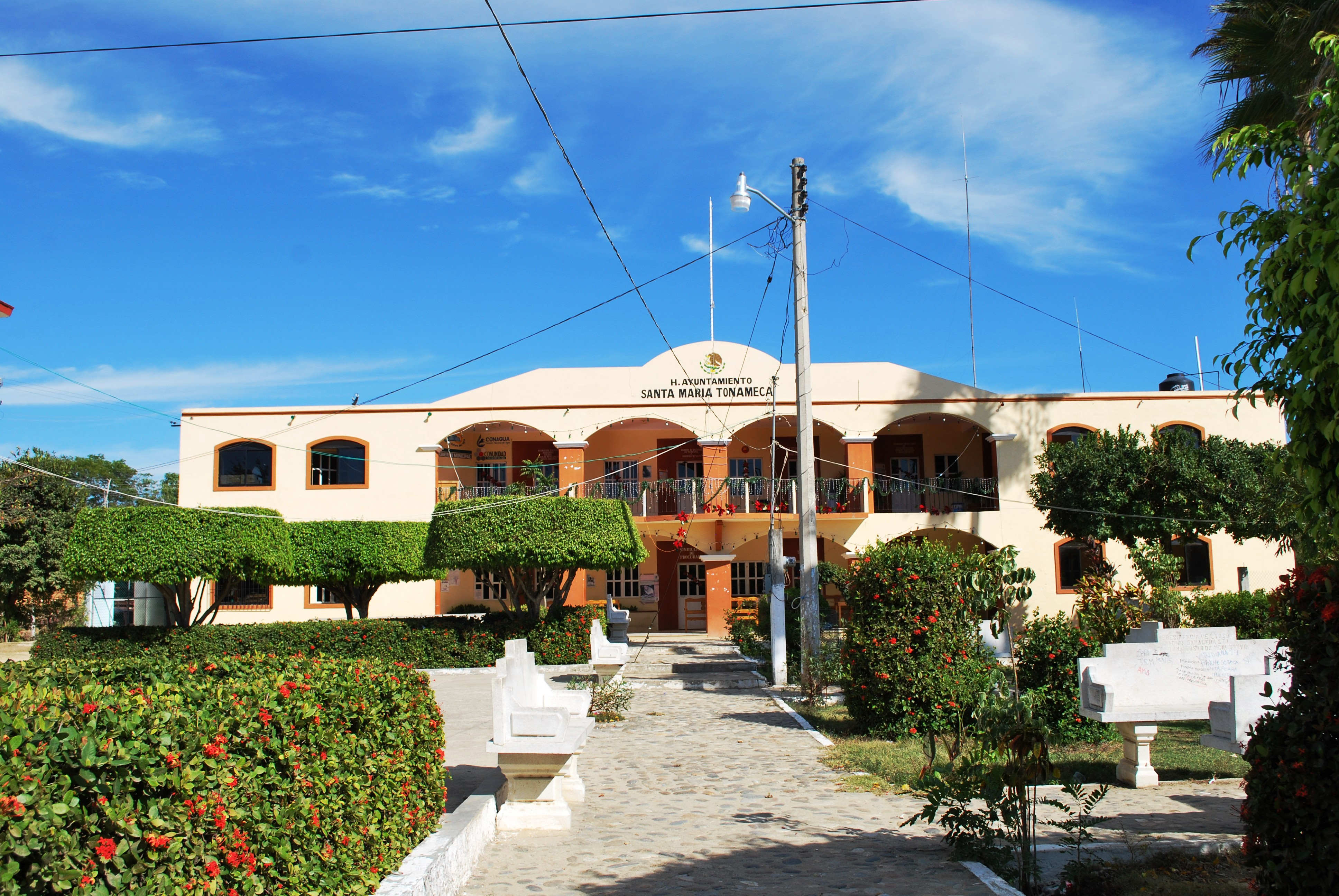 Municipal Palace of Santa Maria Tonameca, Oaxaca, Mexico